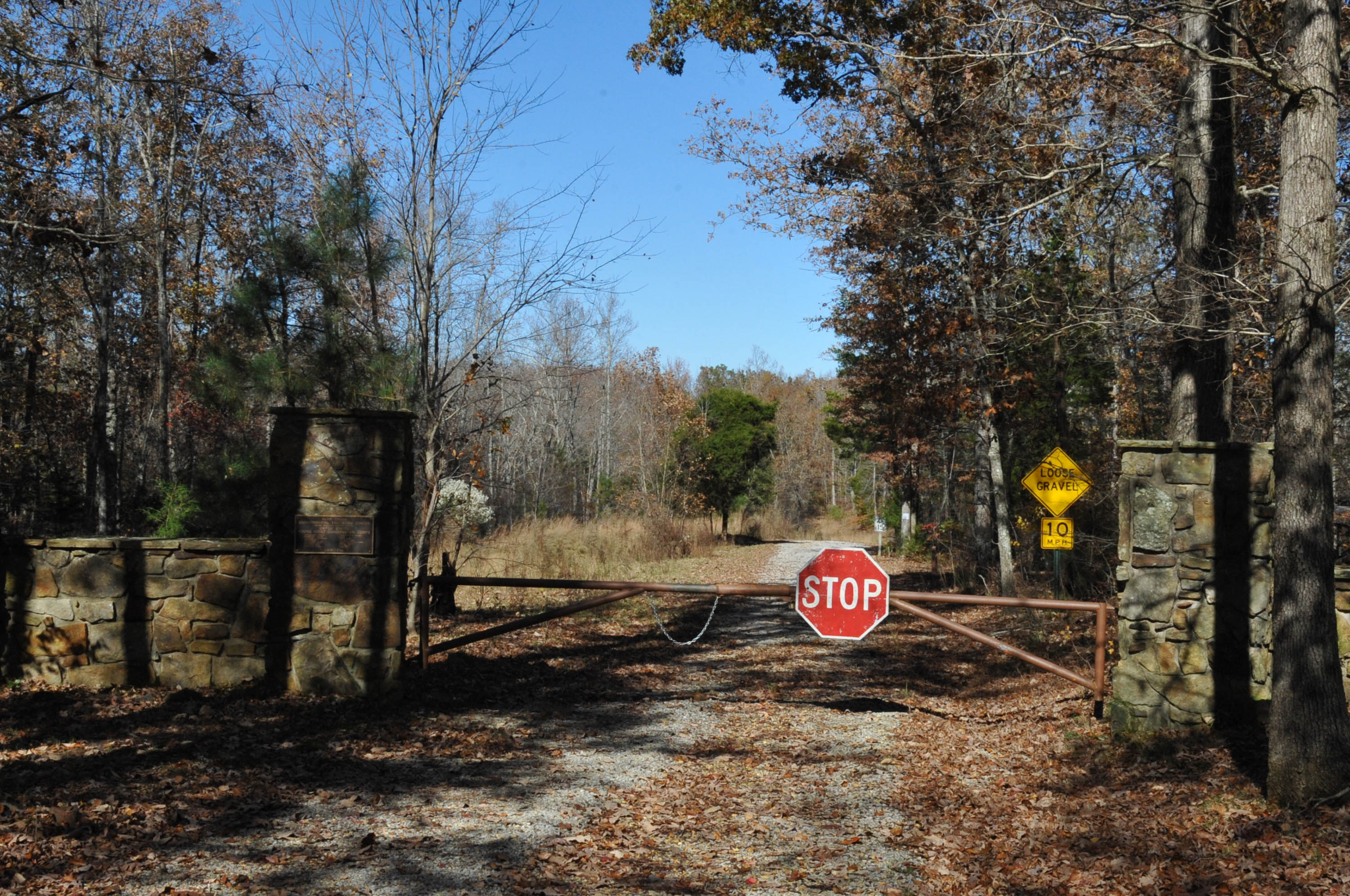 OVERTON FARM WAS BUILT IN 1819 AND OPERATED BY THE OVERTON FAMILY UNTIL 1946. PURCHASED BY THE TENNESSEE VALLEY AUTHORITY IN 1969 AS PART OF THE LAND AFFECTED BY THE CONSTRUCTION OF BEAR CREEK DAM.[2] THE FARM WAS RESTORED BY THE NORTHWEST ALABAMA STATE JUNIOR COLLEGE IN THE 1970S AND USED AS AN EDUCATIONAL CENTER UNTIL 2013